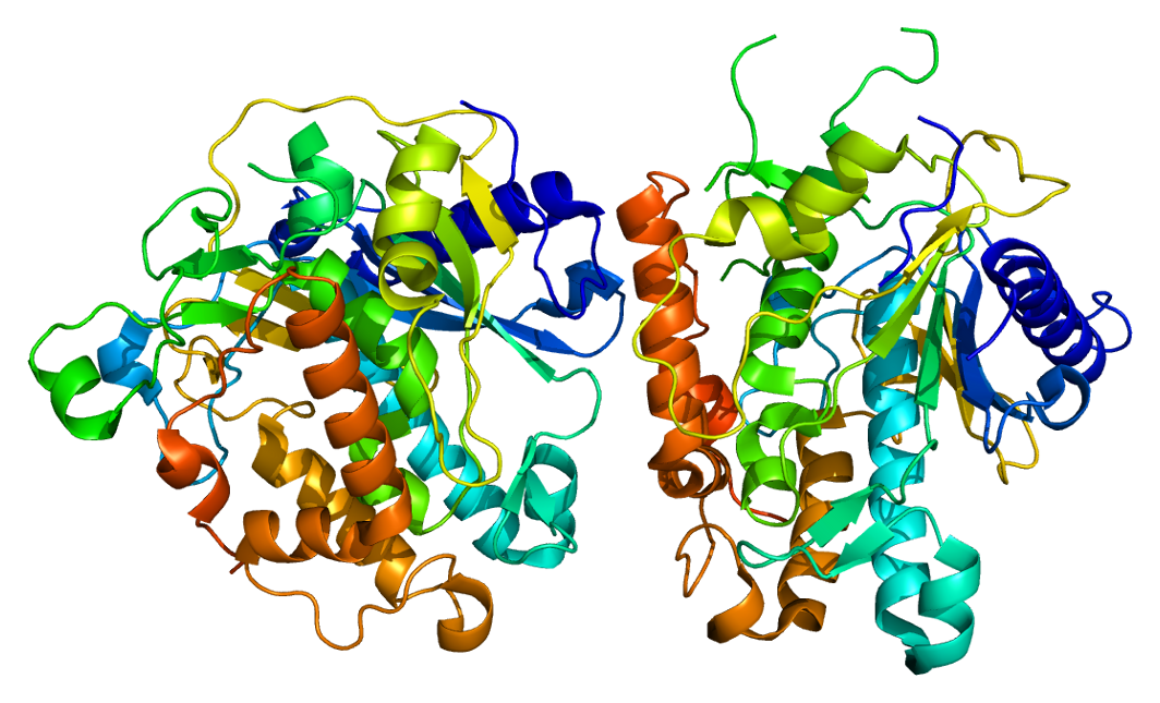 Structure of the ADARB1 protein. Based on PyMOL rendering of PDB 1zy7.